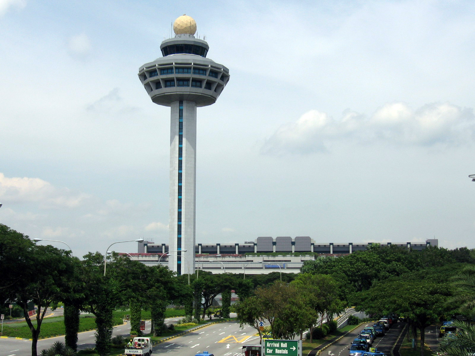 Singapore Changi Airport, Control Tower Taken by User:Sengkang of ENglish.Wikipedia.